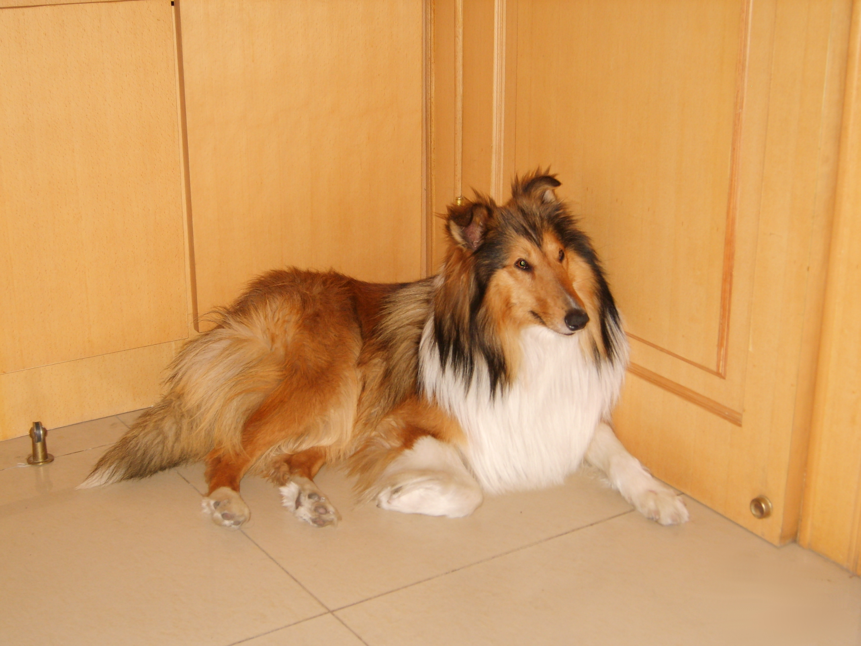 My rough collie named Pangpang